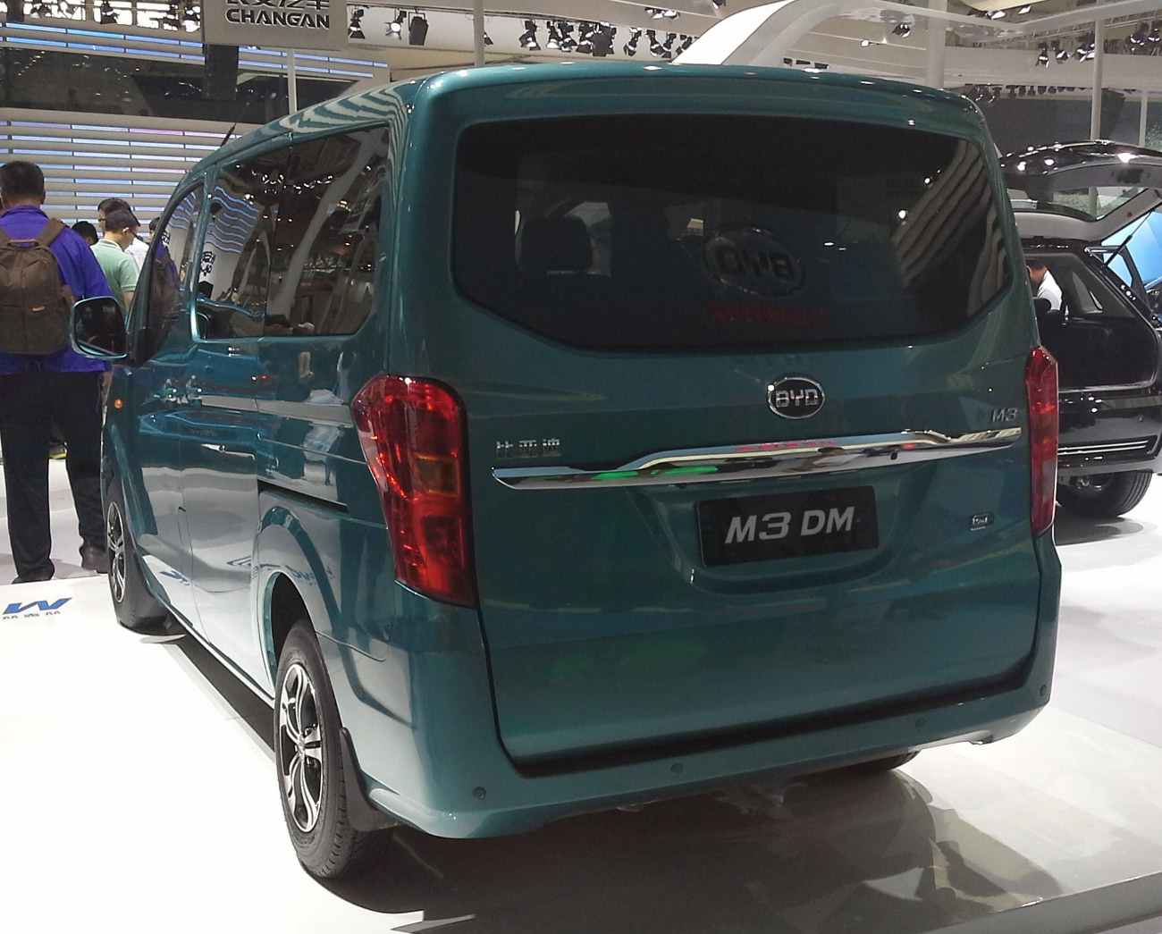 BYD M3 DM photographed at the Auto China 2014, Beijing, China.